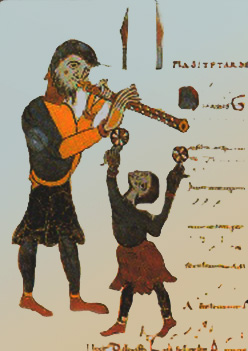 Miniature from "Jongleurs"; Ms. latin 1118; f. 112. Bibliothéque National de Paris.